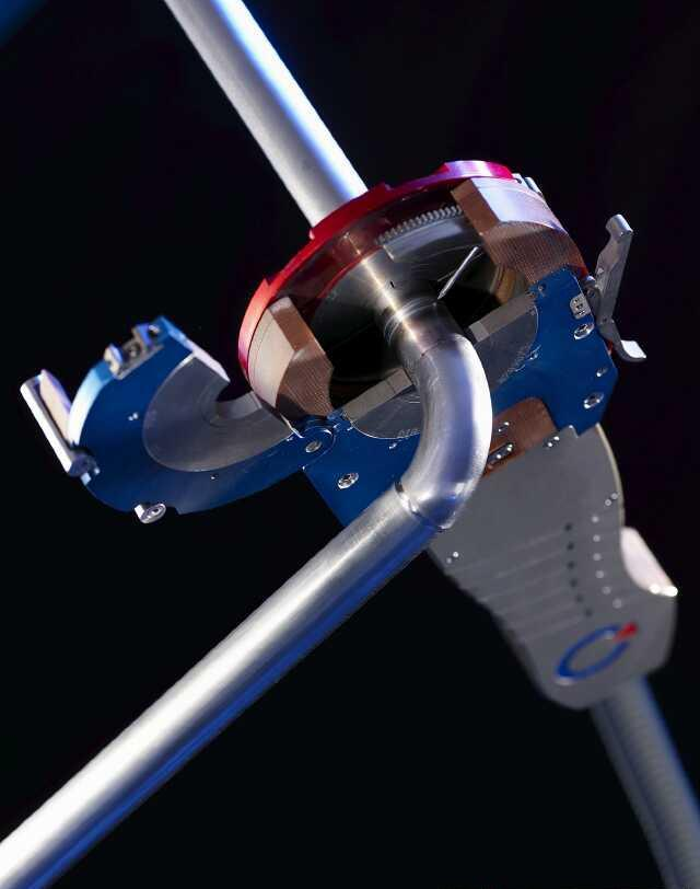 Orbital weld head